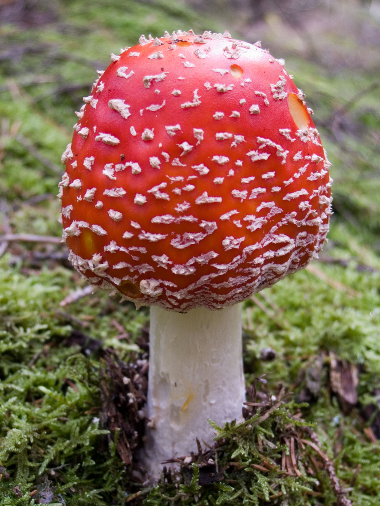 Image of an Amanita muscaria specimen, photographed in southern Sweden. Created by David Remahl, 2005-09-20, 11:31 CEST in Landvetter, Sweden. Workflow: The image was taken using a digital Olympus C-7070 Wide Zoom camera (RAW). Developed from ORF RAW using Adobe Camera Raw Converted to sRGB color space Saved for Web, embedding the ICC profile, scaling down using bicubic sharper The original ORF or DNG image is available from the author on request (since Commons does not support high-quality source material). Please reference P9200135.ORF.